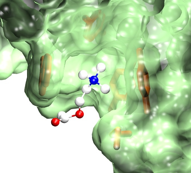 This is an image of the neurotransmitter acetylcholine bound to a model of the nicotinic receptor alpha7 homopentameric (voir Le Novere et al (2002) PNAS. 99: 3210-3215)